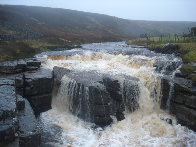 Top drop of the Trough. This is the top fall of the Trough, a 100m limestone gorge in Sleightholme Beck, seen in wet conditions high enough to paddle a kayak down the stream to this point. This was an exploratory paddle, and this drop was deemed unrunnable (the only previously recorded party to run this beck thought so too).